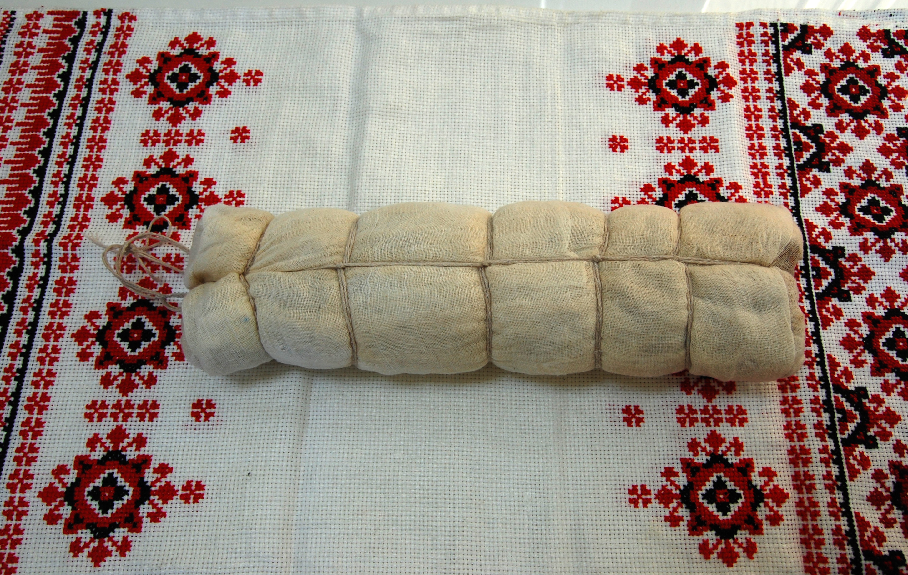 Polendvitsa